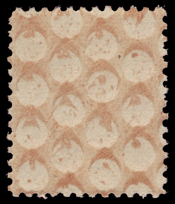 Economy gum on stamps of the German Post under Allied control after World War II